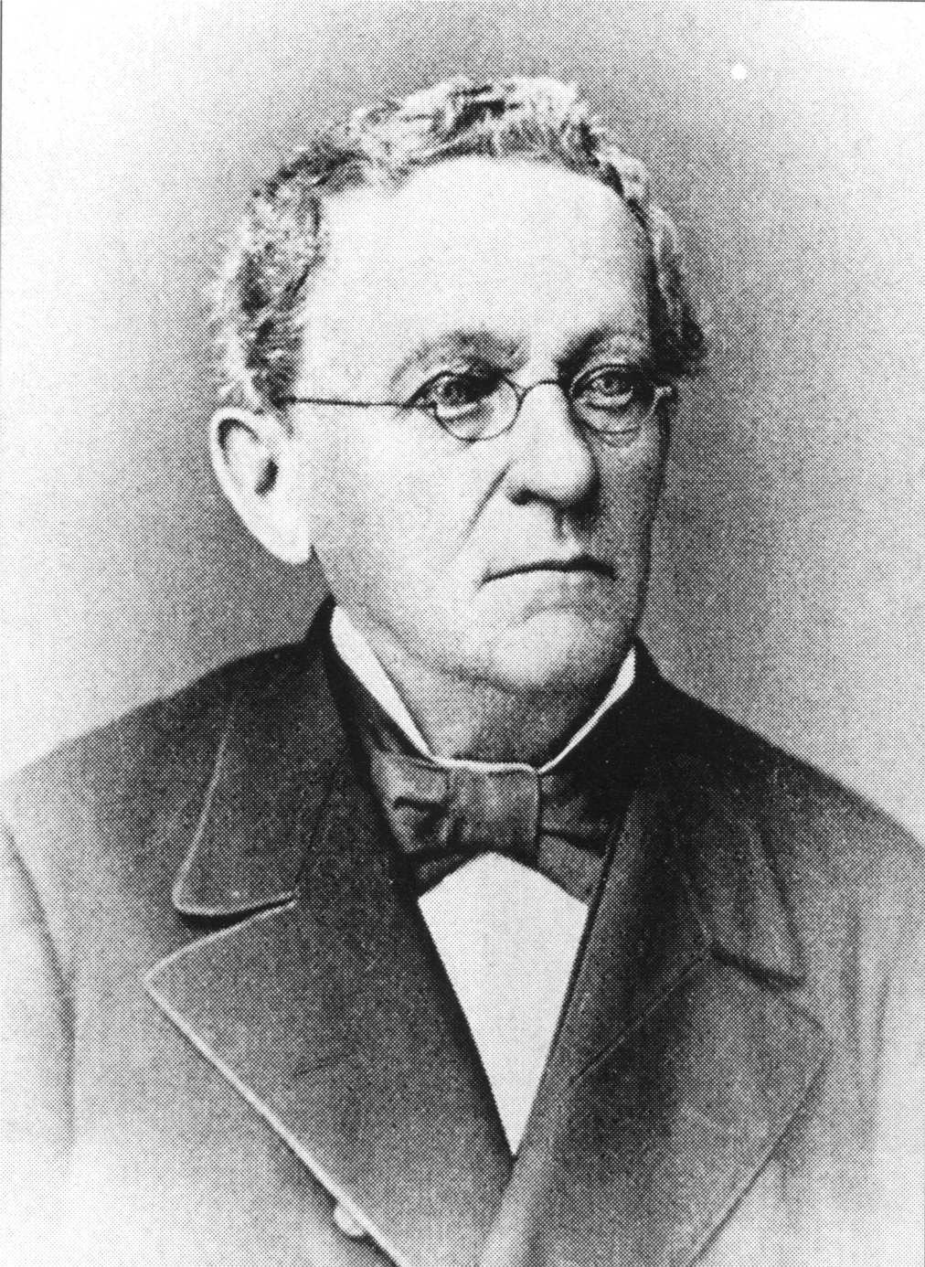 Friedrich Wilhelm Grundmann